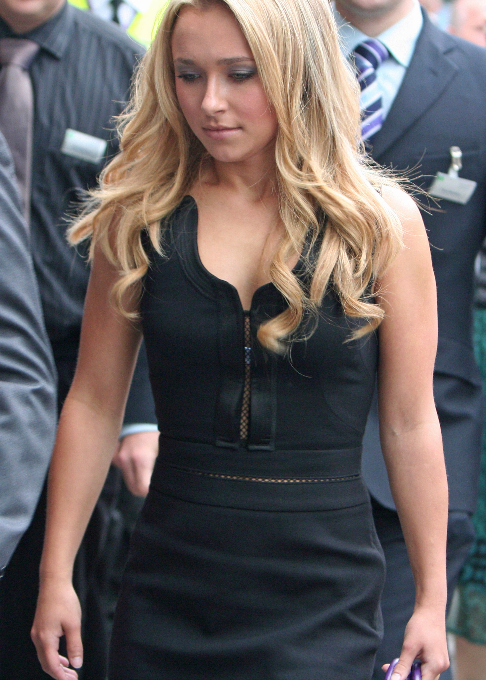 Heroes World Tour, London, Aug 31st, 2007.